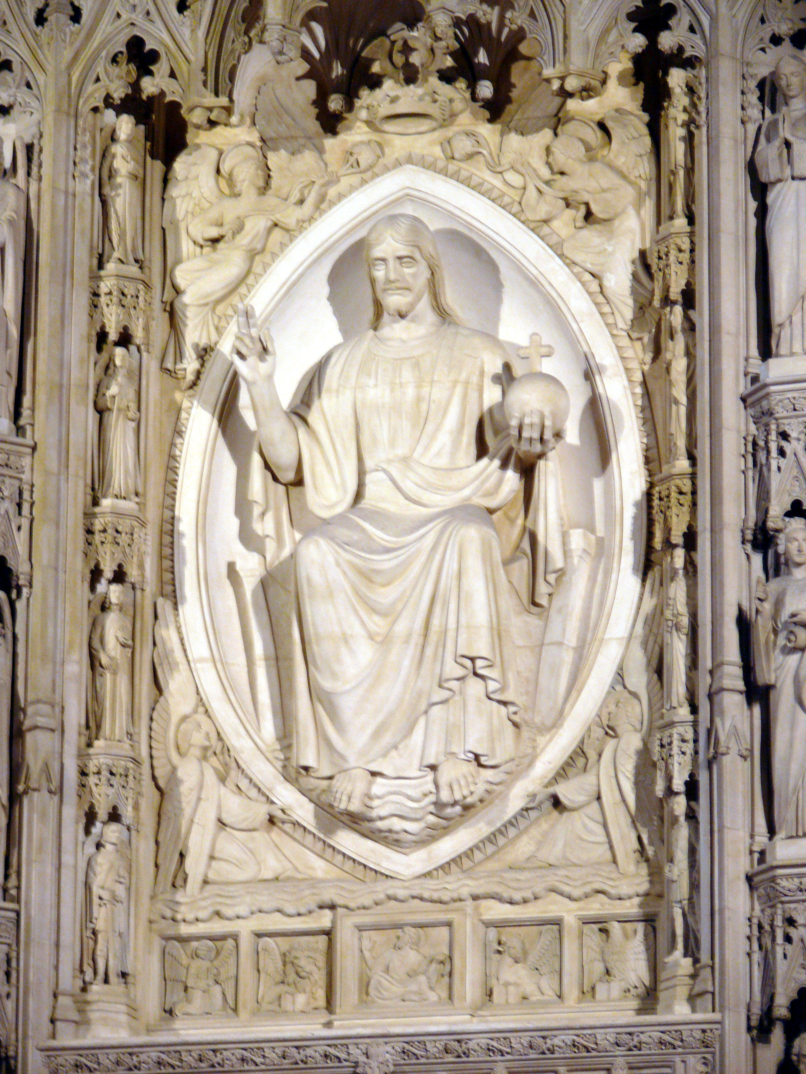 "Christ in Majesty" (1972) Walker Hancock, sculptor. Washington National Cathedral (Cathedral Church of Saint Peter and Saint Paul, located at 3101 Wisconsin Avenue, NW)